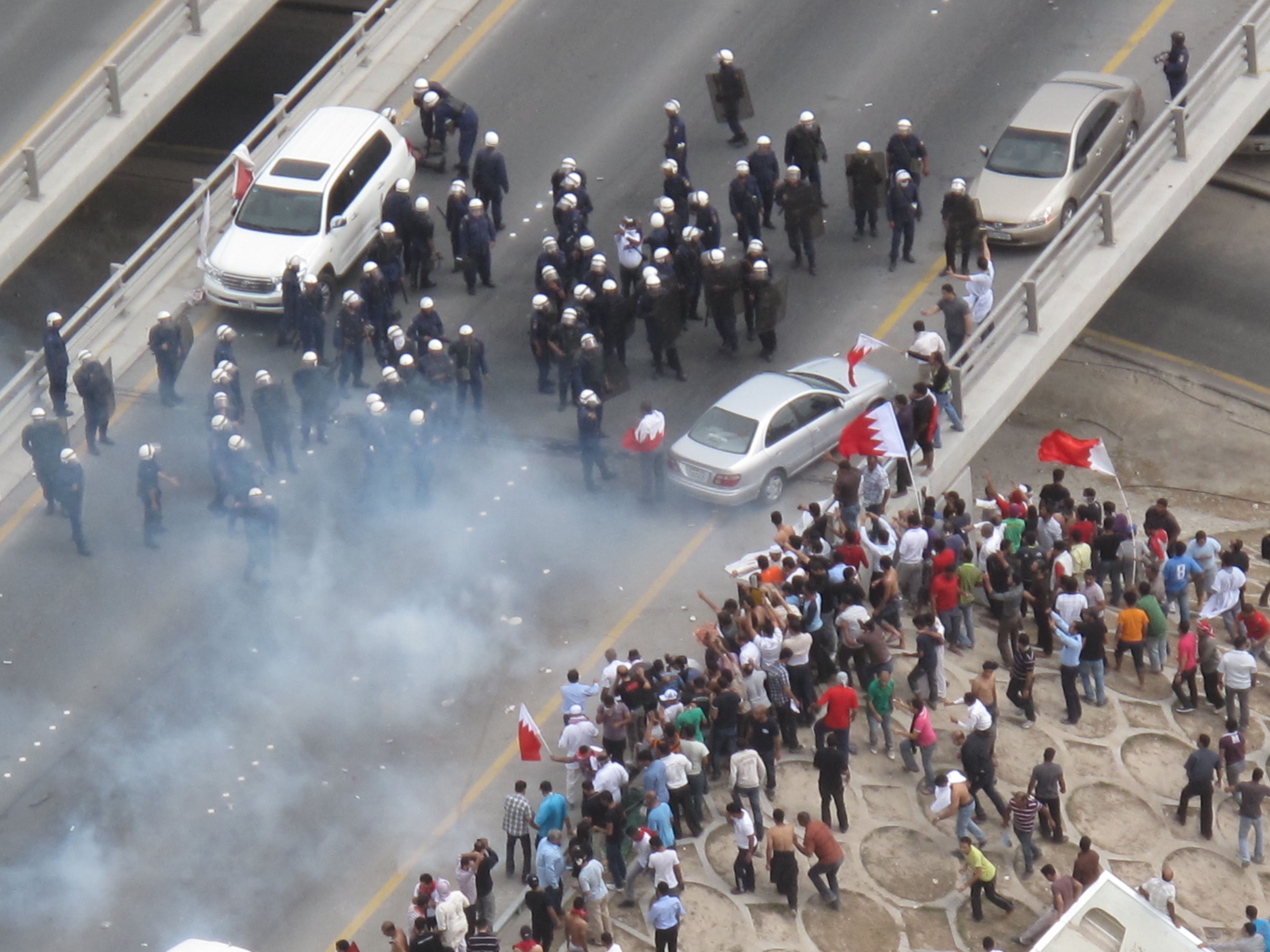 Clashes between security forces and protesters on 13 March